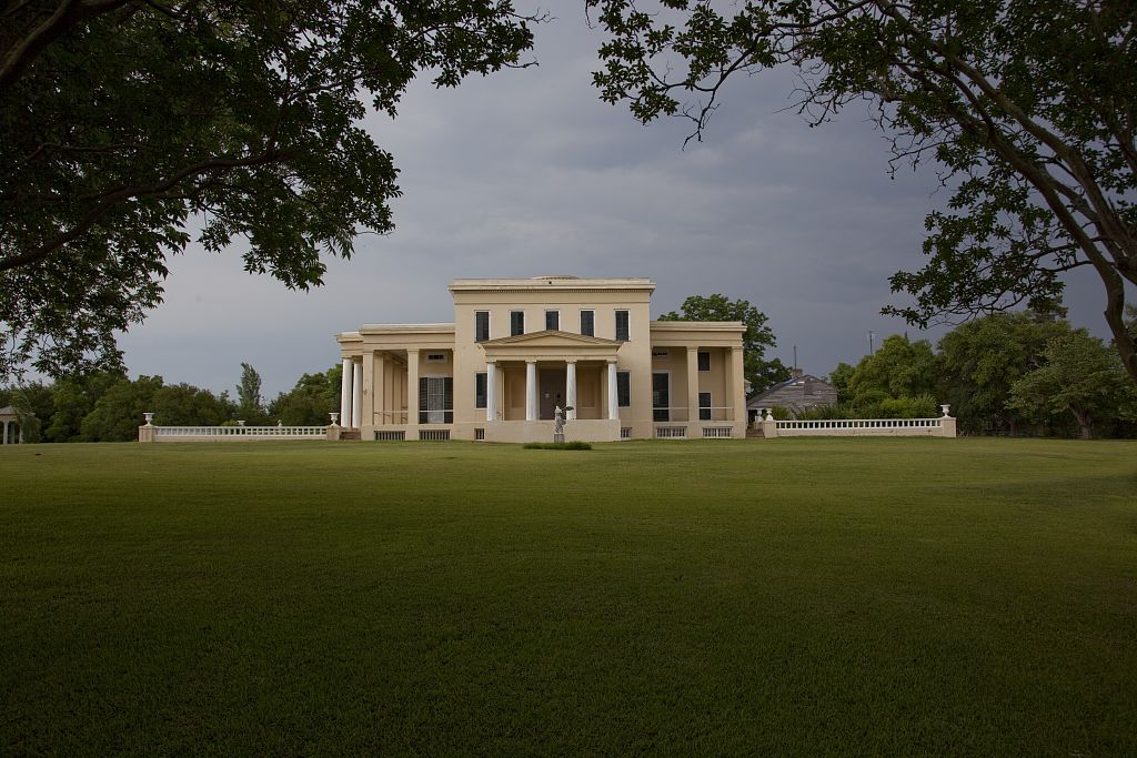 Gaineswood, a plantation house in Demopolis, Alabama.)